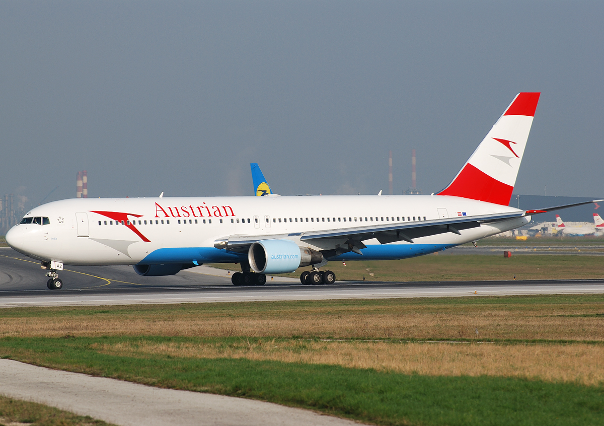 Austrian Airlines Boeing 767-3Z9ER at Vienna Int. Airport